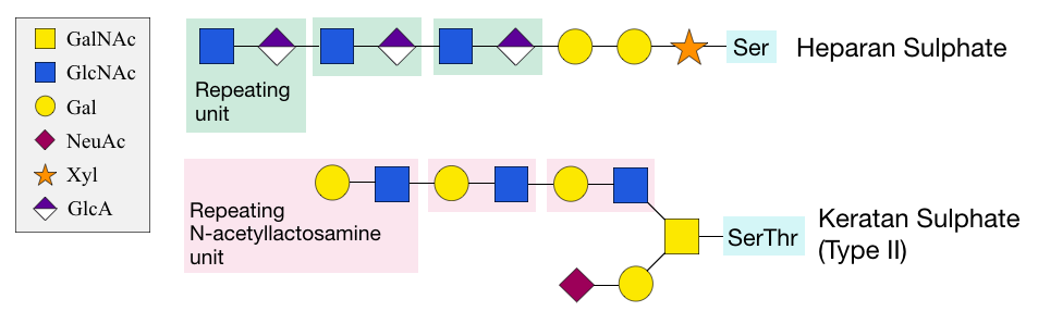 Simple sugar structure of heparan sulphate and keratan sulphate, which are proteoglycans.